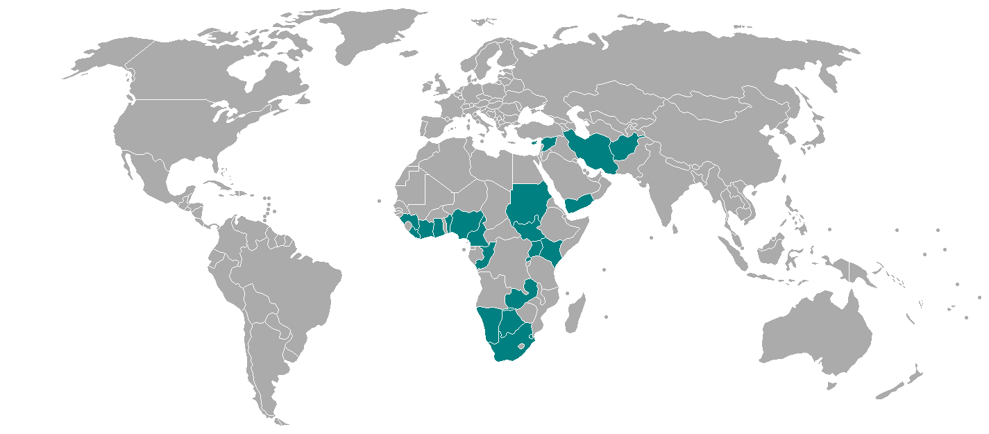 MTN Group global locations